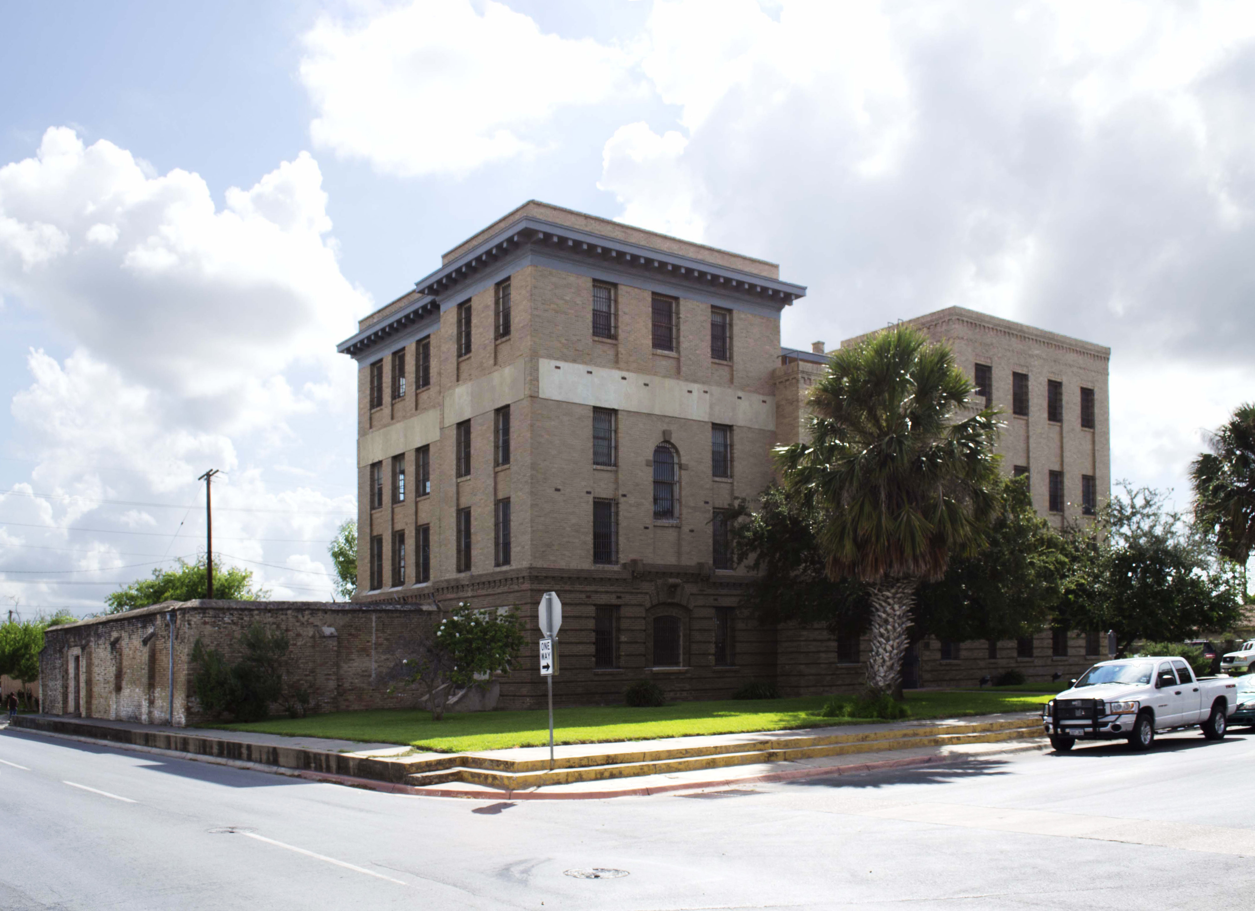 Old Brownsville County Jail in Brownsville Texas. Listed on the NRHP.